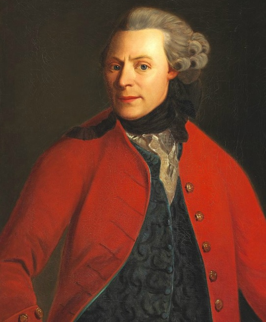 The industrialist Jacob Holmblad.